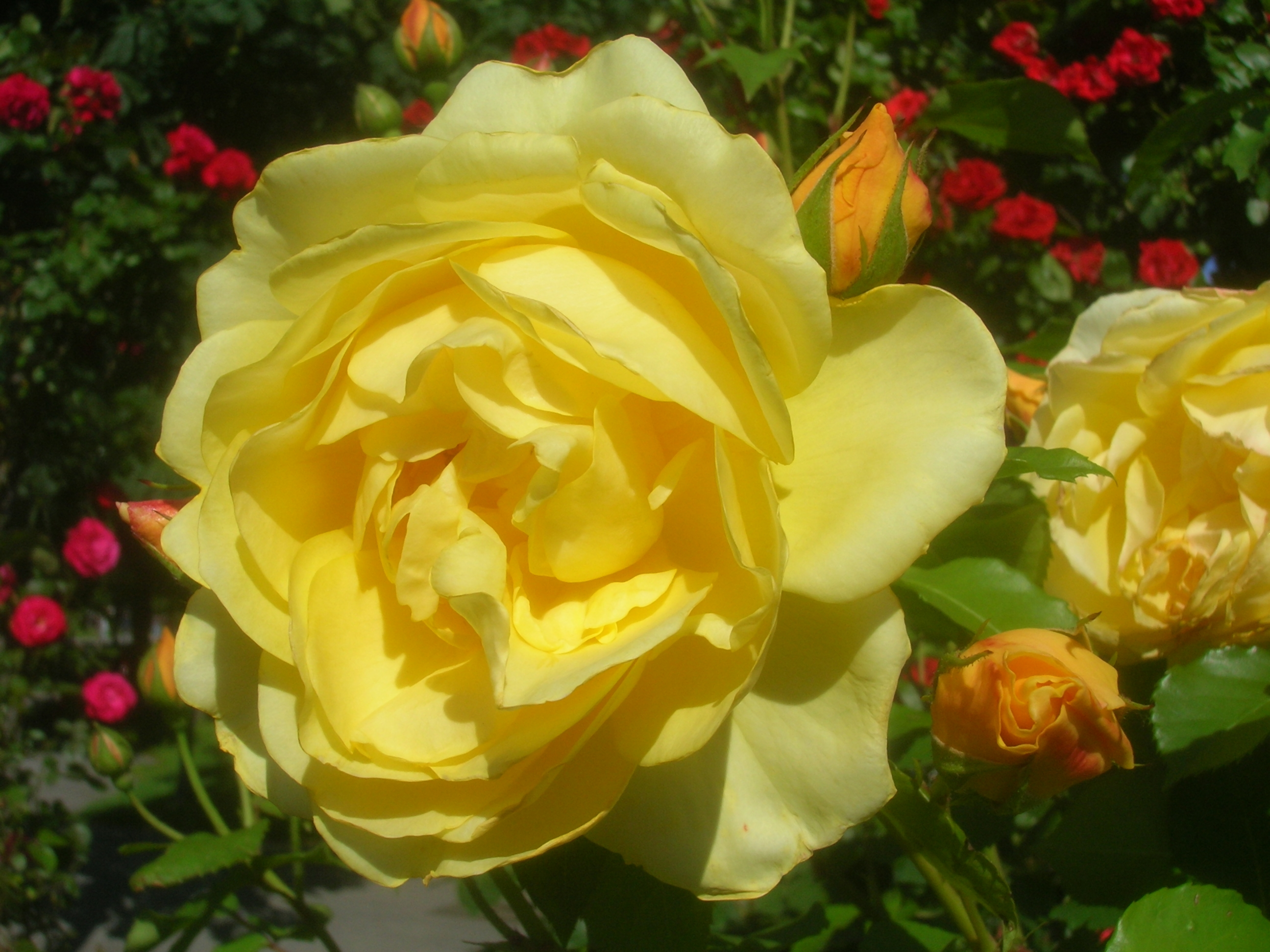 Rosa 'Graham Thomas' in the Volksgarten in Vienna.